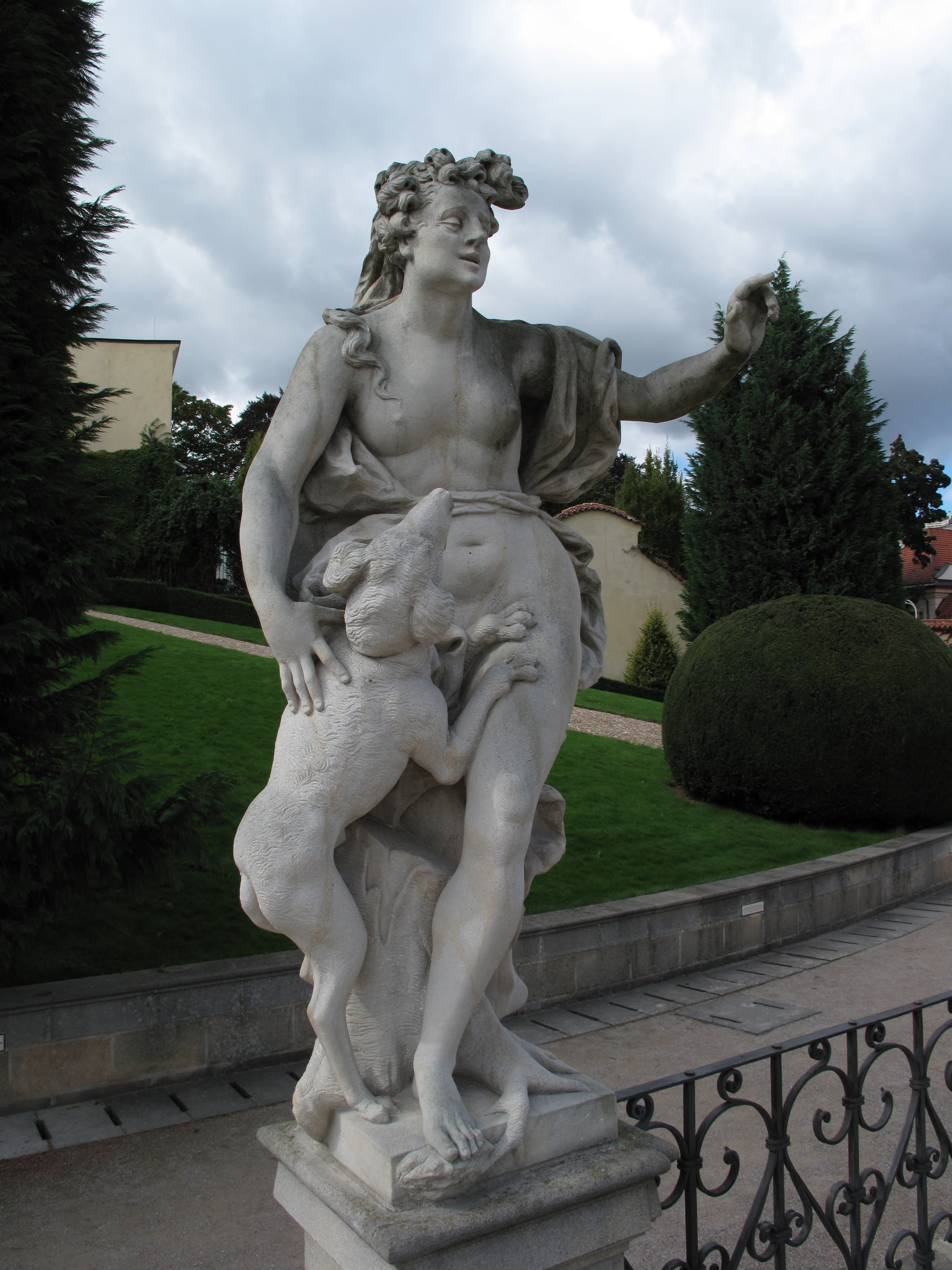 Matyáš Bernard Braun work in Vrtba Garden, Prague, Lesser Quarter, Czech Republic.